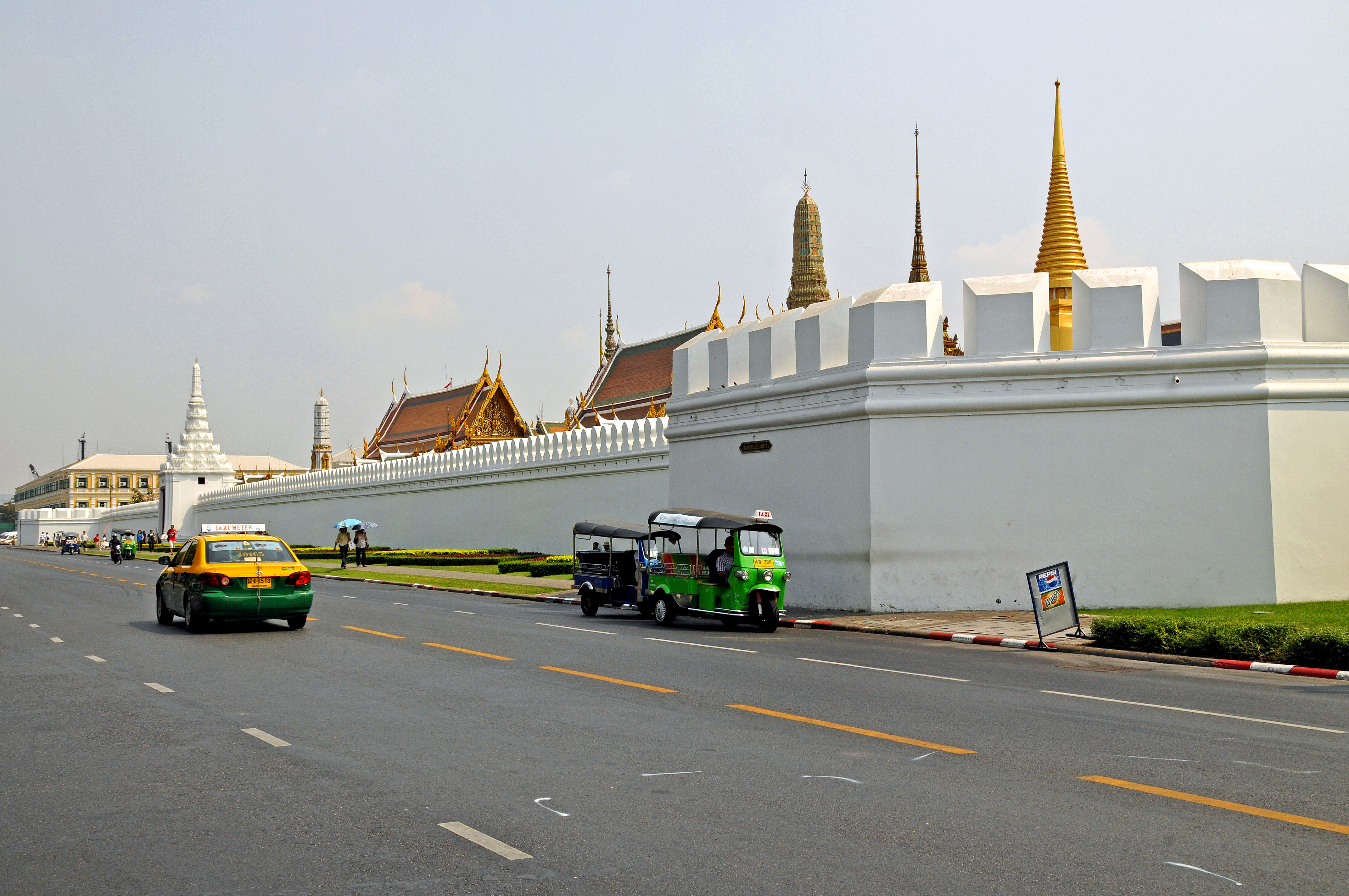 PLEASE, no multi invitations (none is better) in your comments. Thanks. The wall around the Grand Palace, Bangkok, Thailand